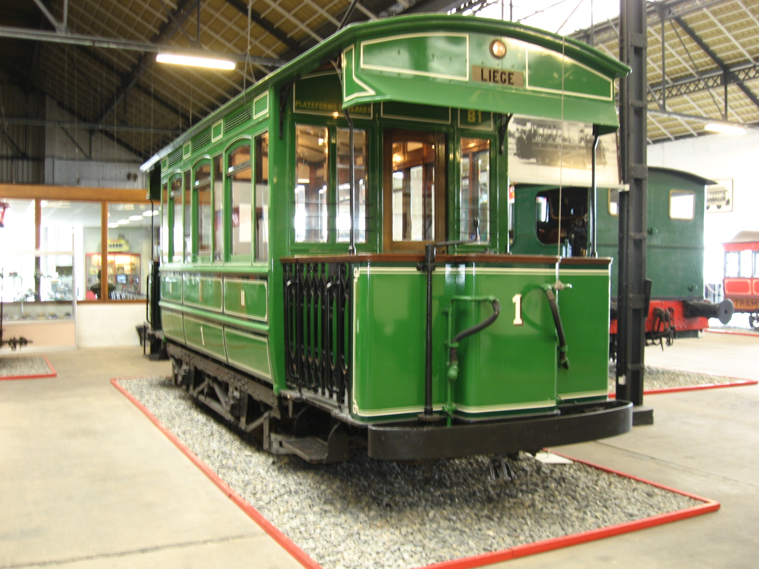 Early electric tram of the RELSE in Liege.